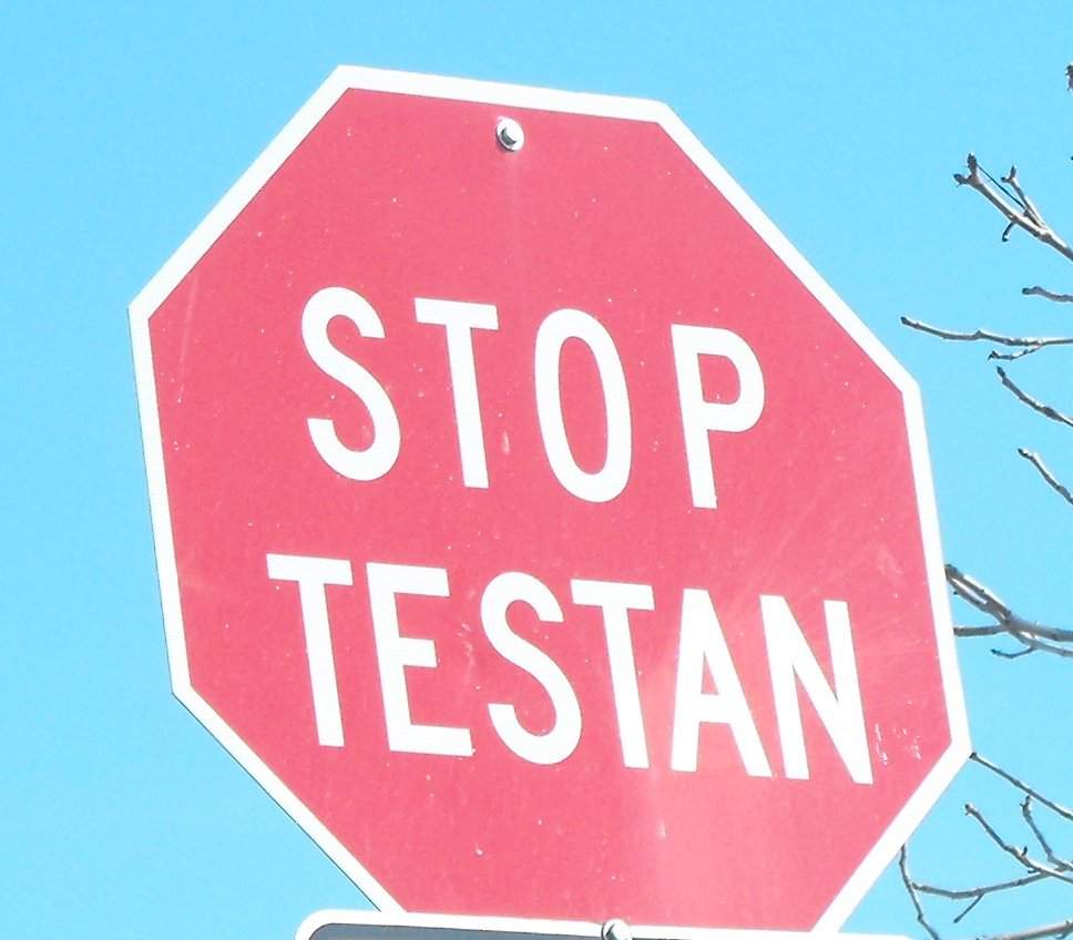 Mohawk Stop Sign